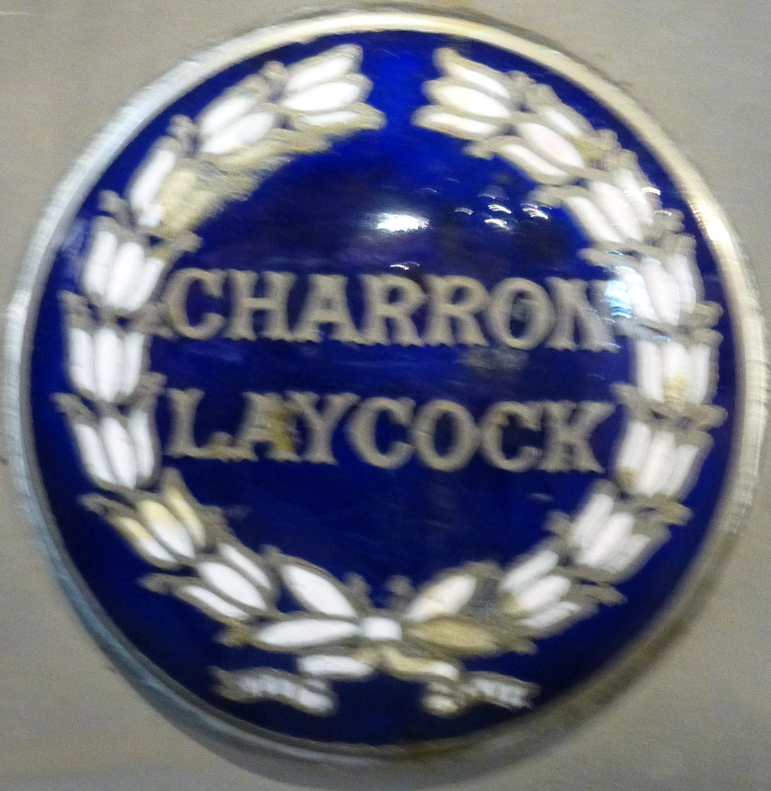 Emblem Charron-Laycock